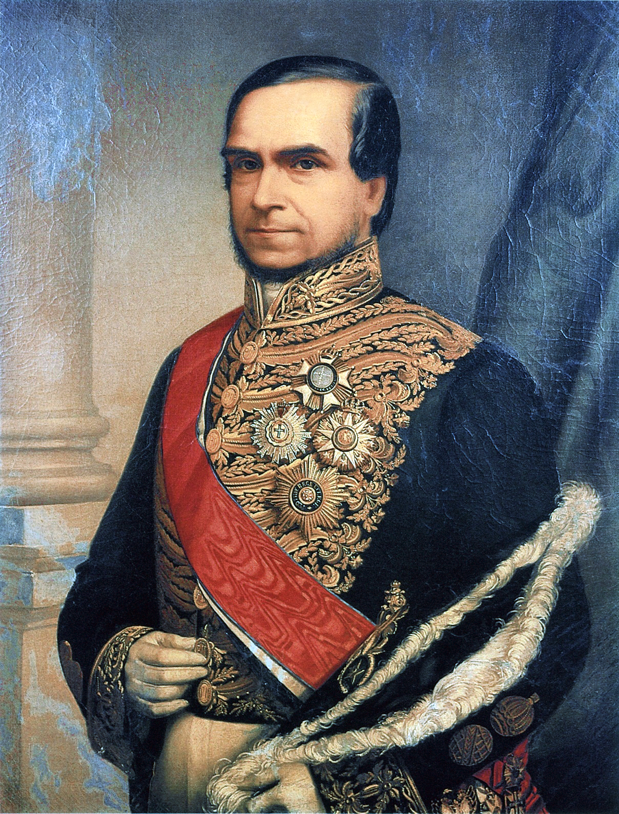 Honório Hermeto Carneiro Leão, Marquis of Paraná, c.1855.